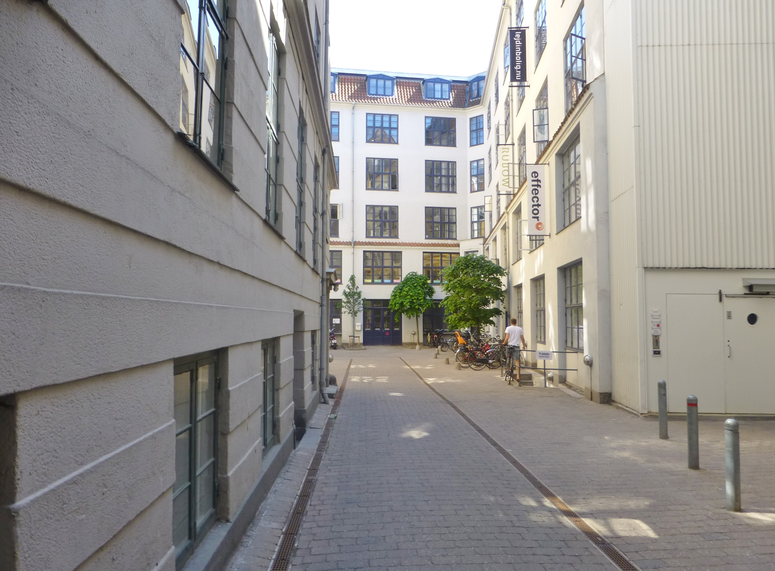 The passageway Sankt Annæ Passage in Indre By, Copenhagen.